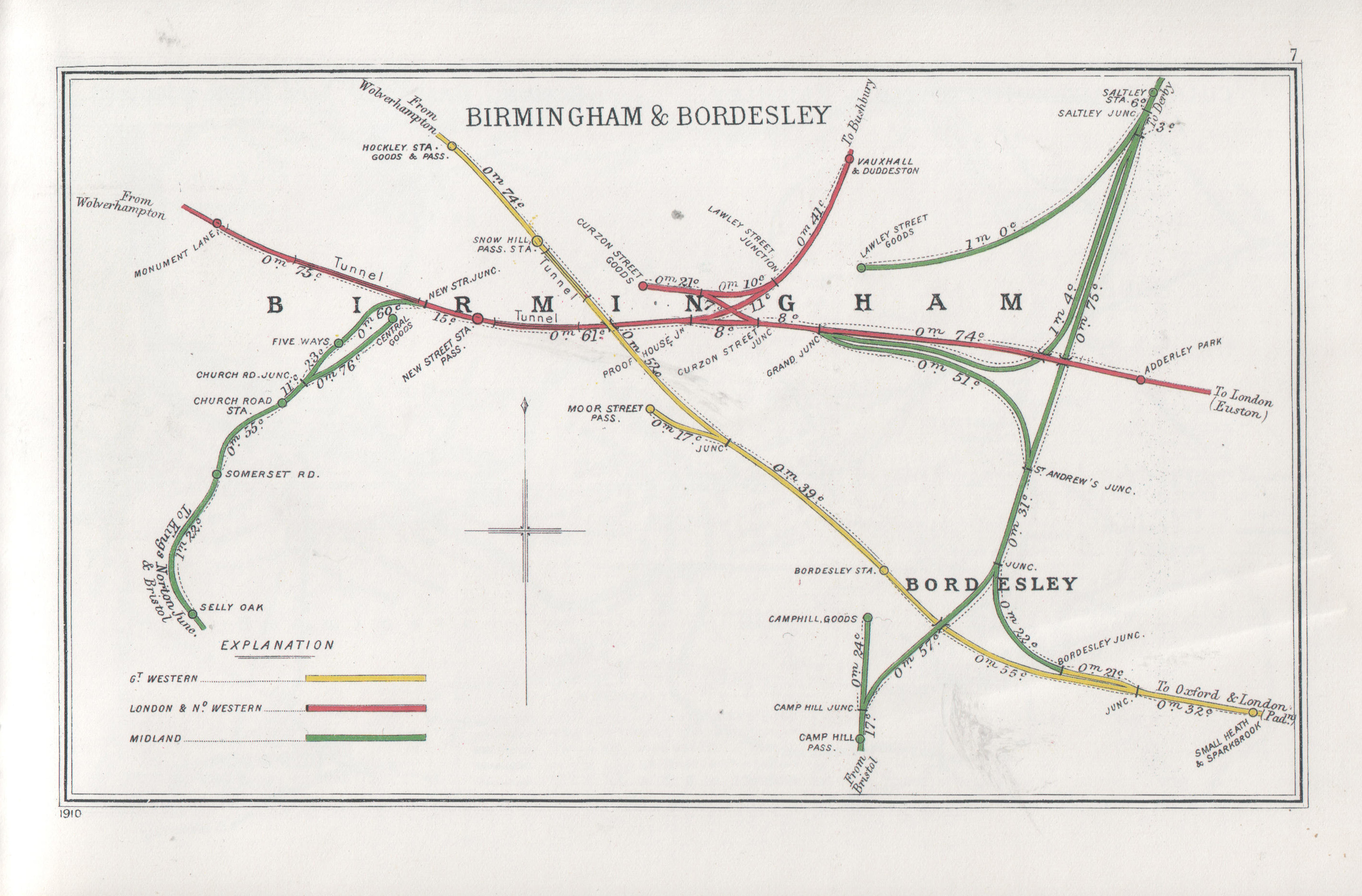 Pre Grouping railway junction around Birmingham & Bordesley